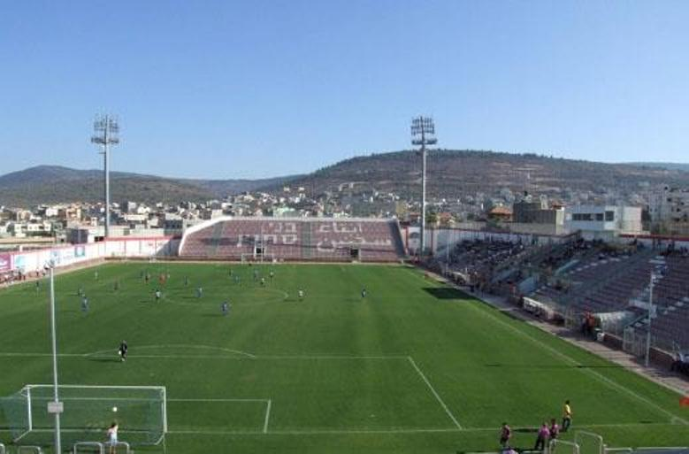 Sports in Israel